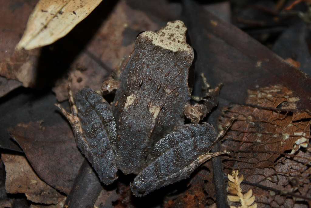 Found during the day in amongst leaf litter on Bohol. Thanks to Arvin Diesmos for the identification.